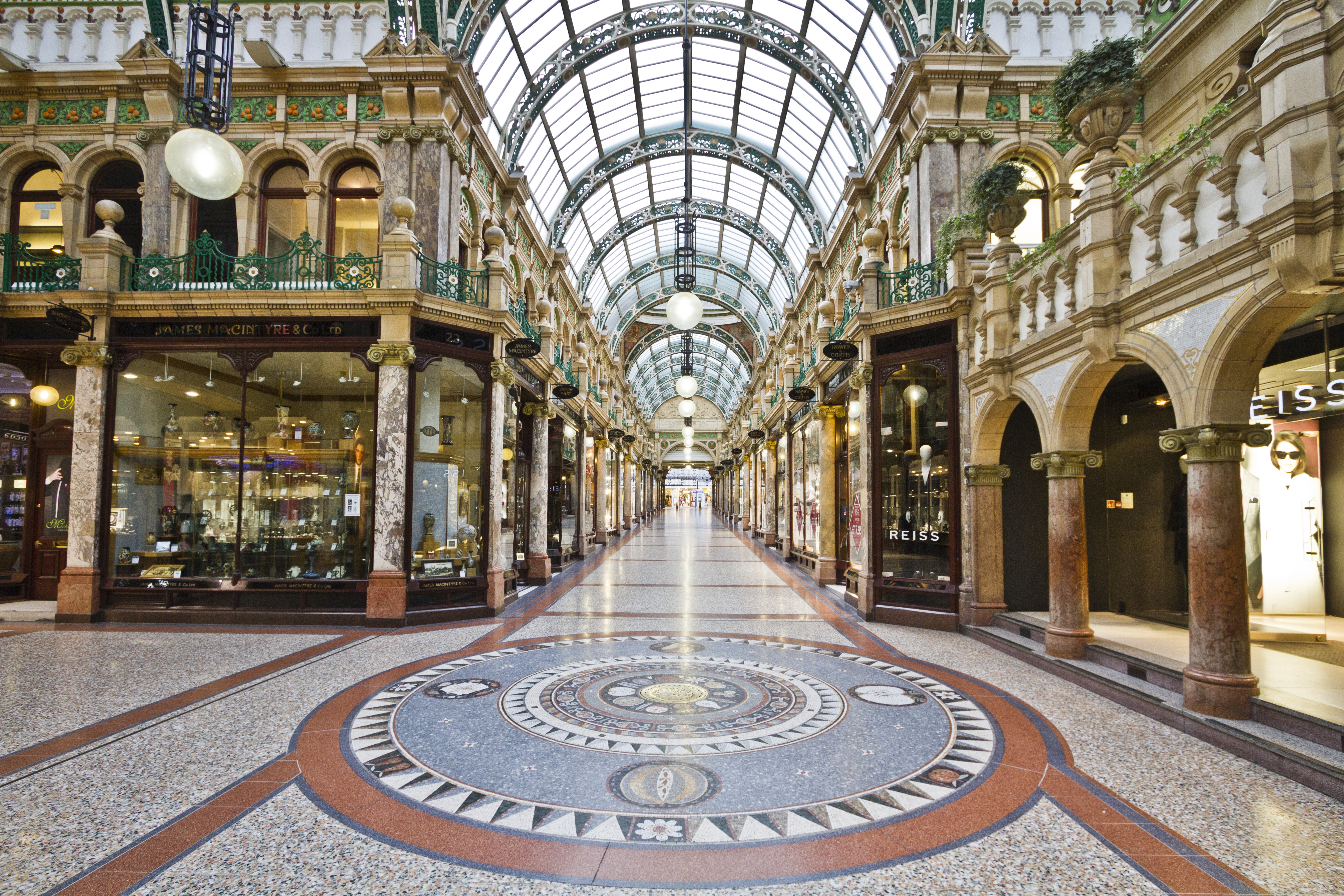 Here is a photograph taken from County Arcade inside Victoria Quarter. Located in Leeds, Yorkshire, England, UK.